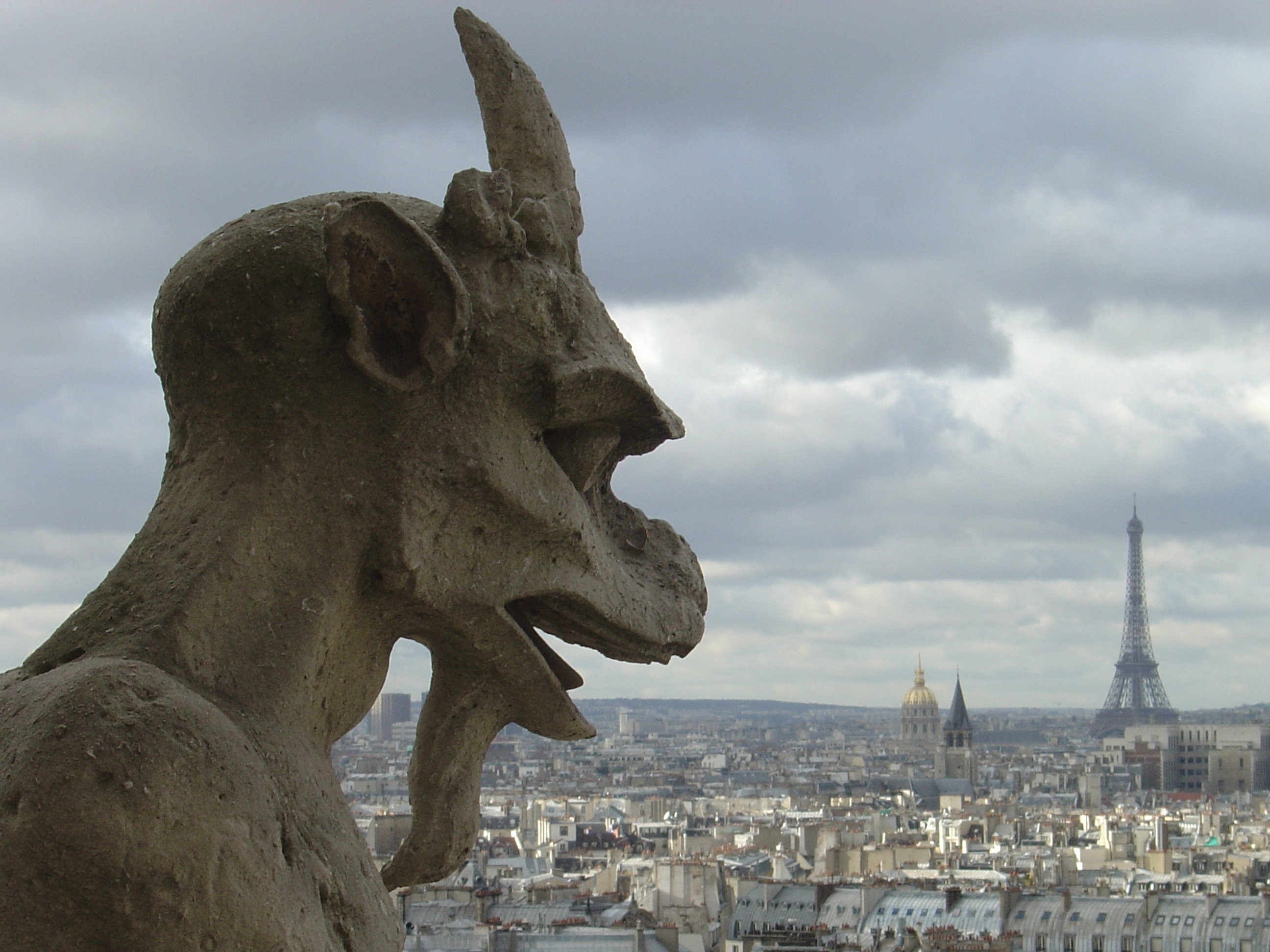 In the picture you can see a monster (Gargoyle) looking over Paris.